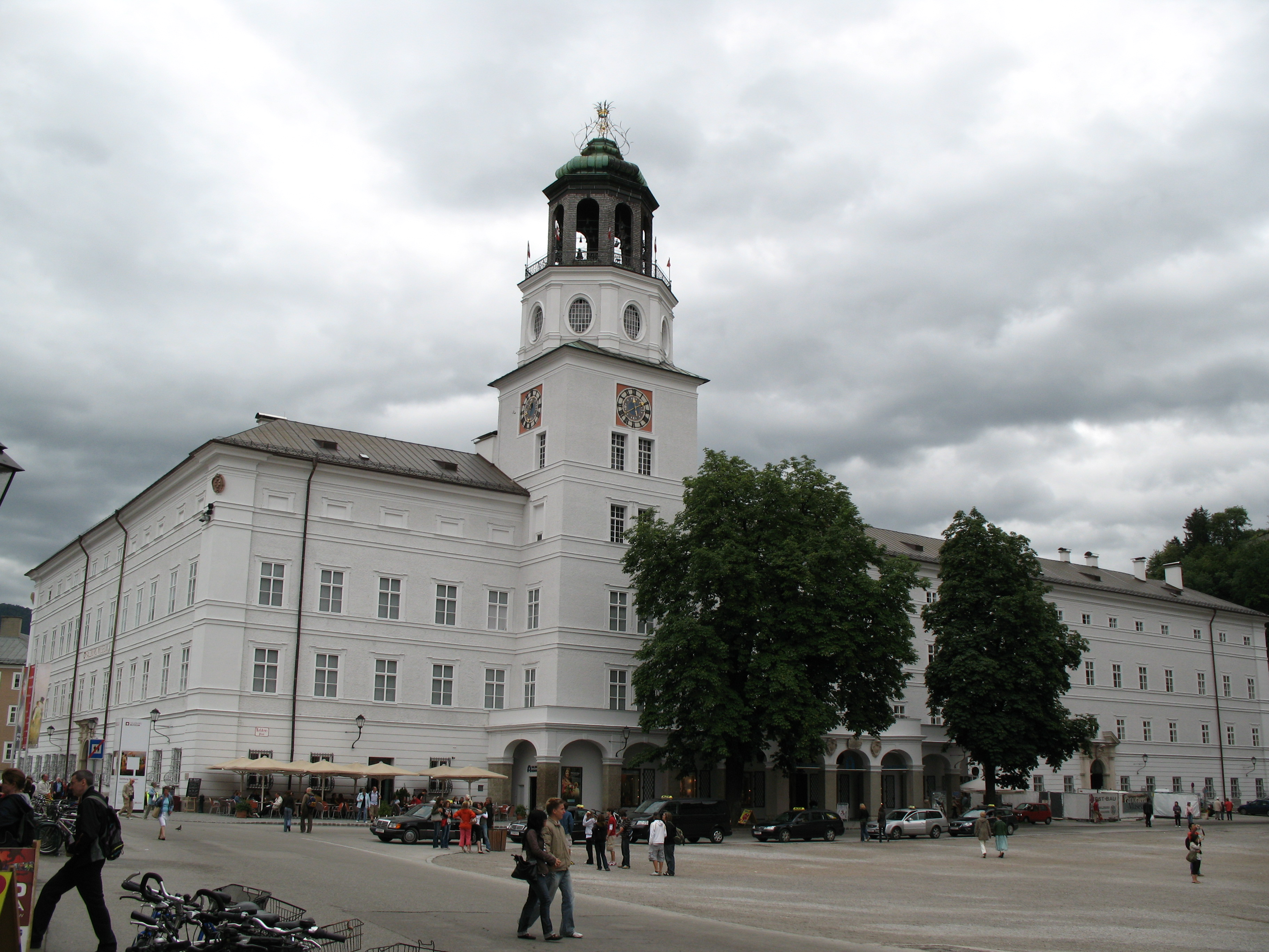 Austria, Salzburg, Residenzplatz